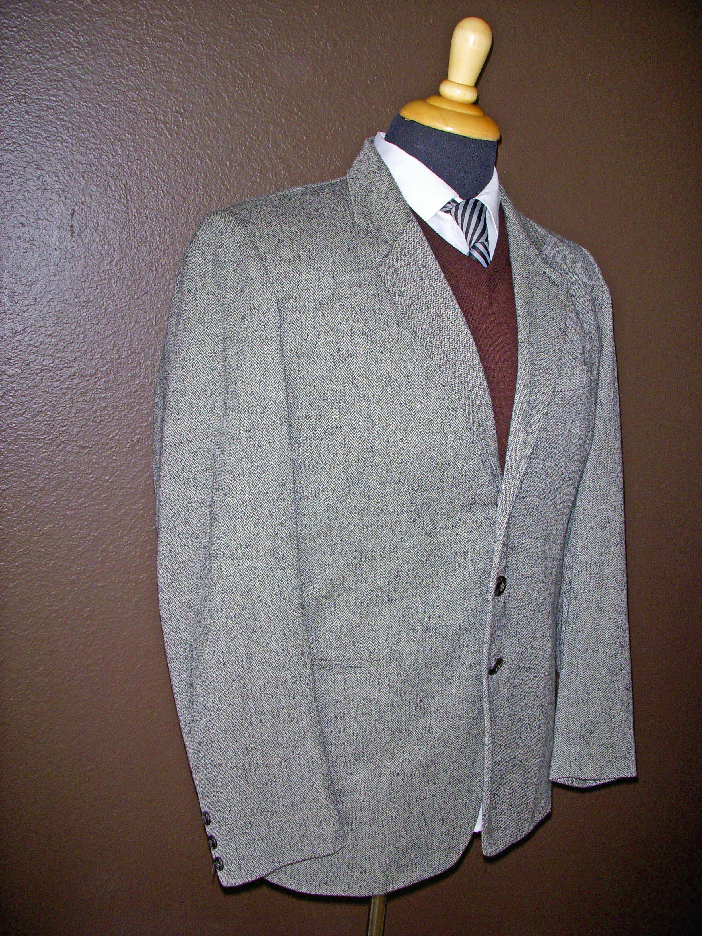 tweed jkt